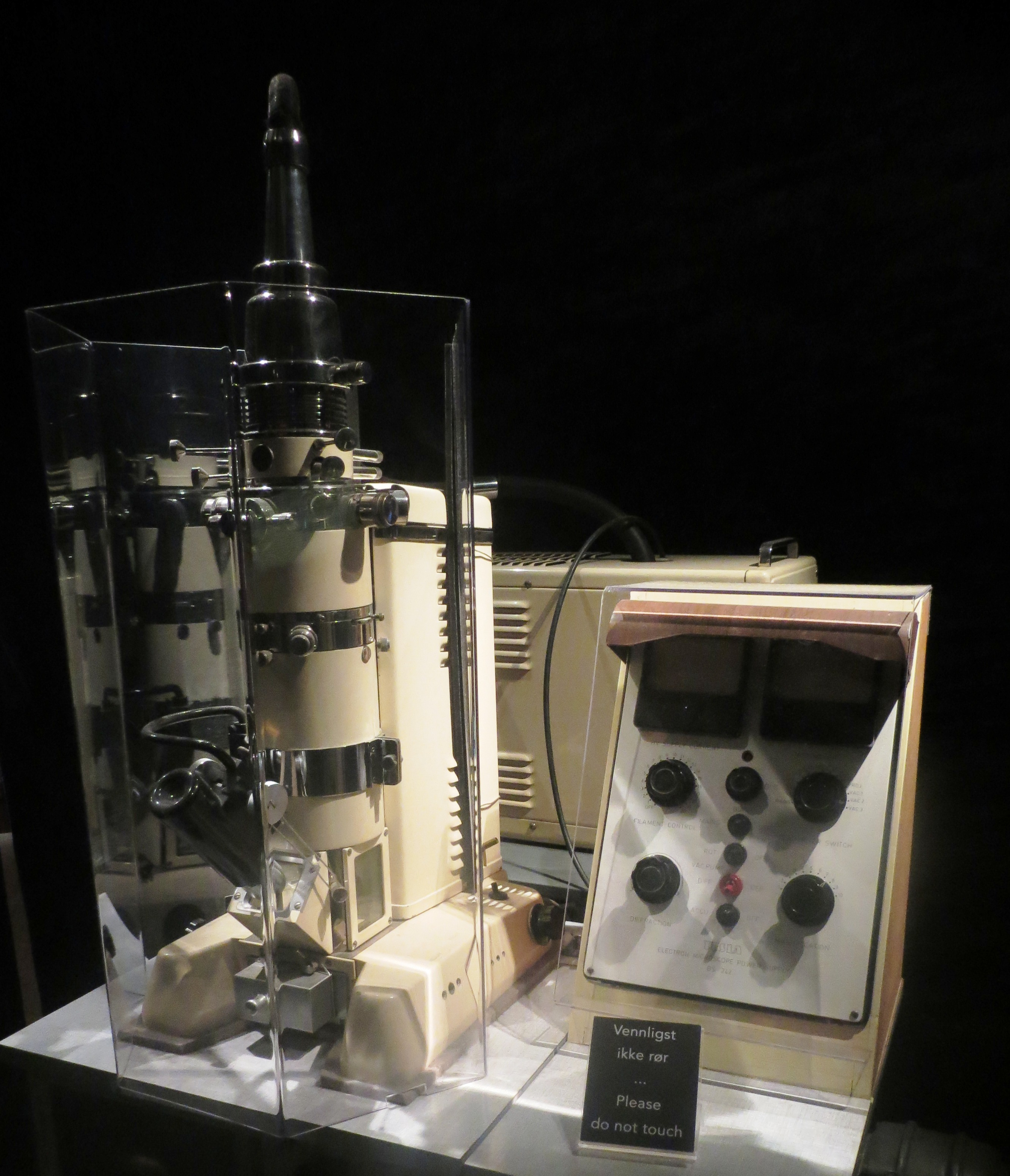 "Tesla BS 242" Electron microscope, manufactured in Czechoslovakia in 1958, and bought by the University of Oslo. Image from display at the Norwegian Tech Museum, 2013.